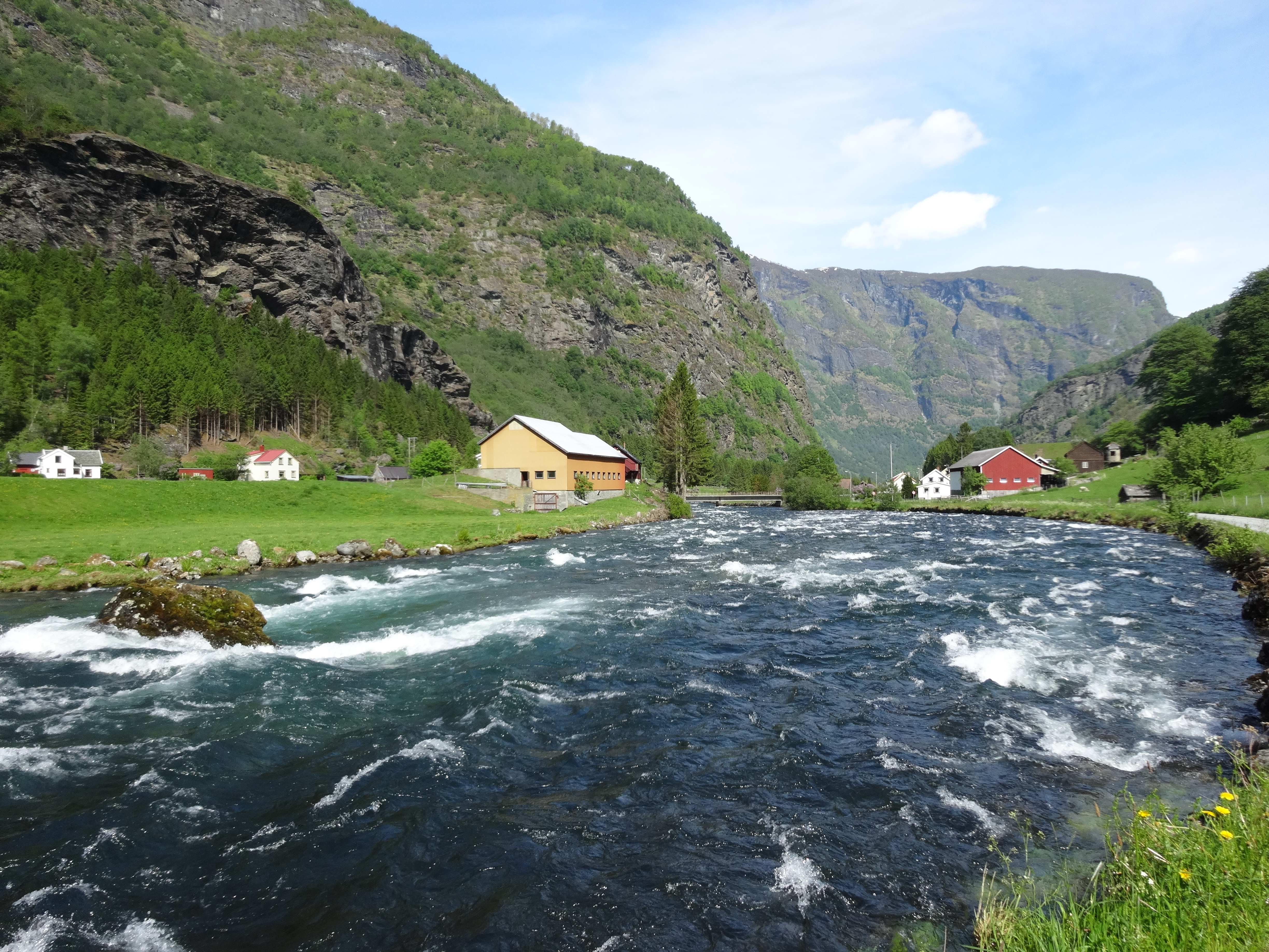 Rapids Flam River Norway